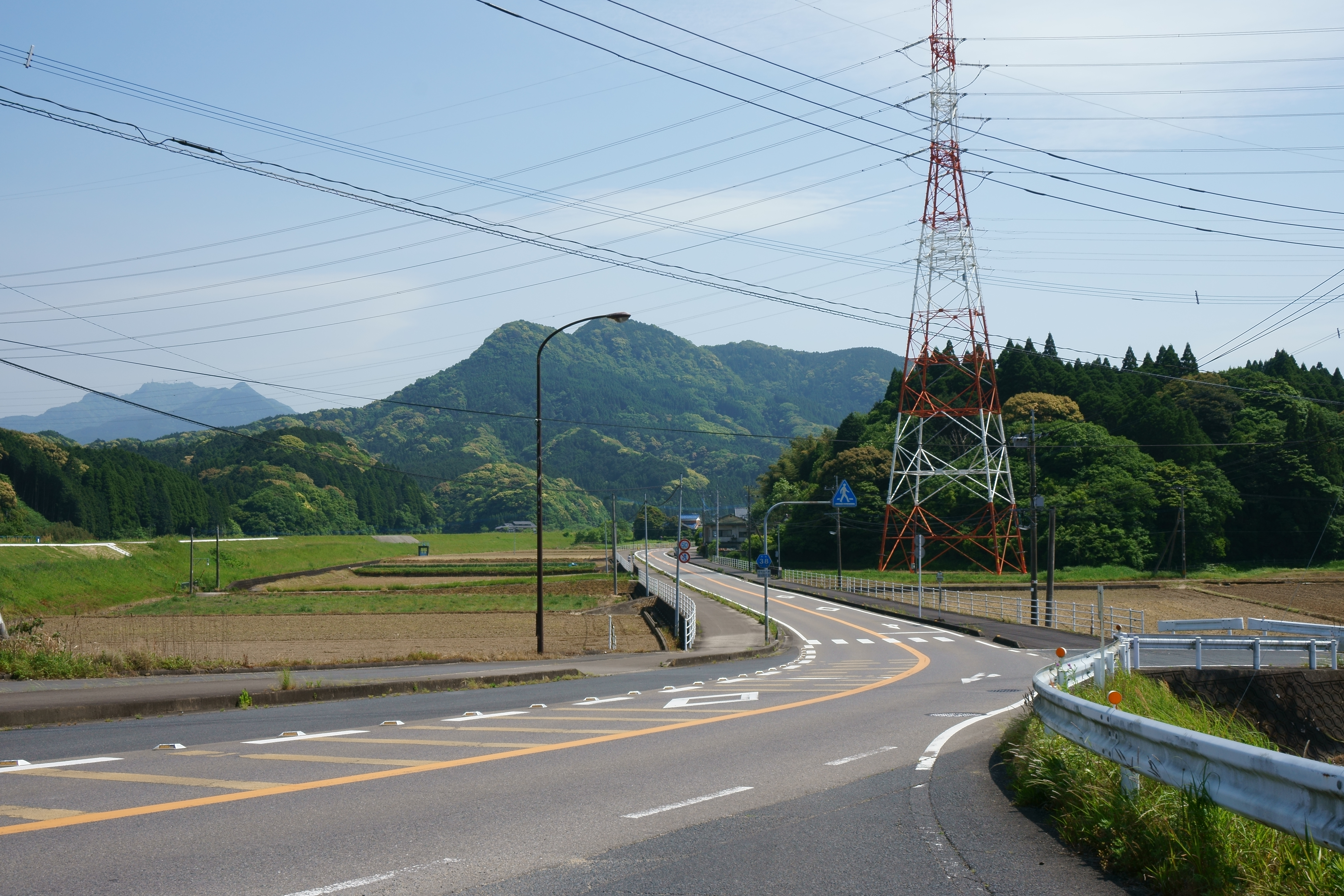 Saga Prefectural Road No.38 in Sari, Ouchi, Karatsu city, Saga prefecture.